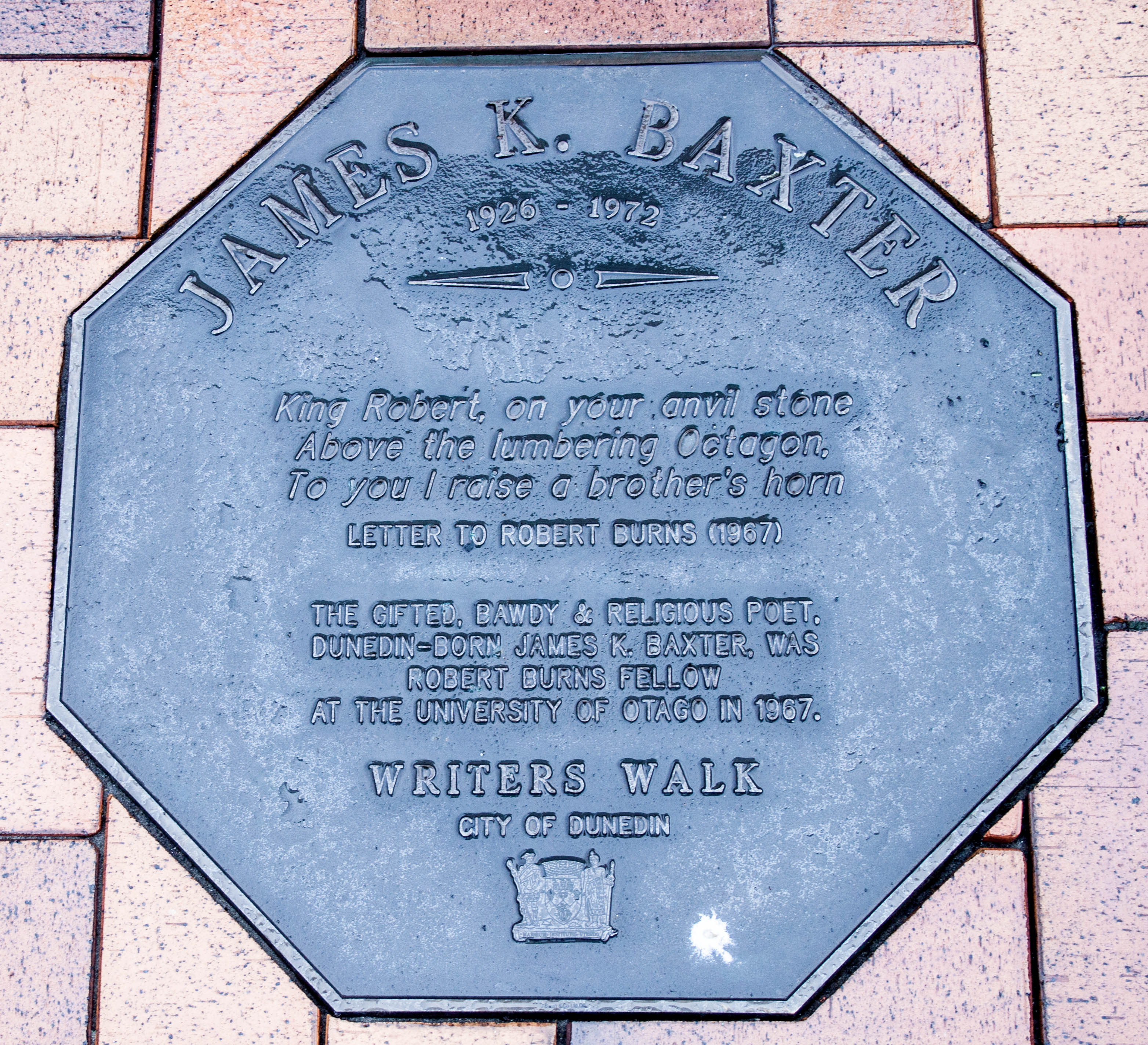 Plaque dedicated to James K. Baxter in Dunedin, on the Writers' Walk on the Octagon